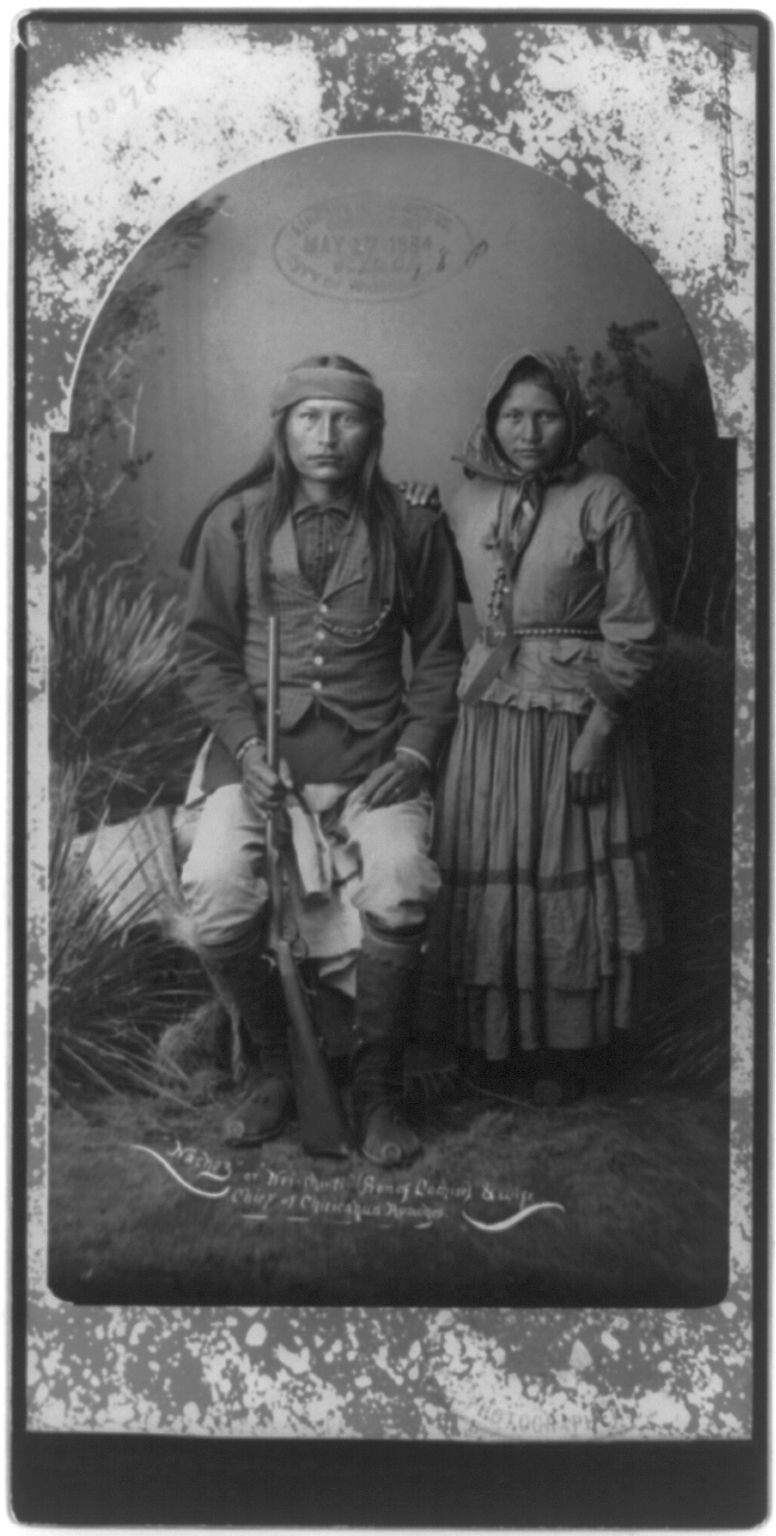 "Naches" or "Wei-chi-ti", Chiricahua Apache chief; son of Cochise.